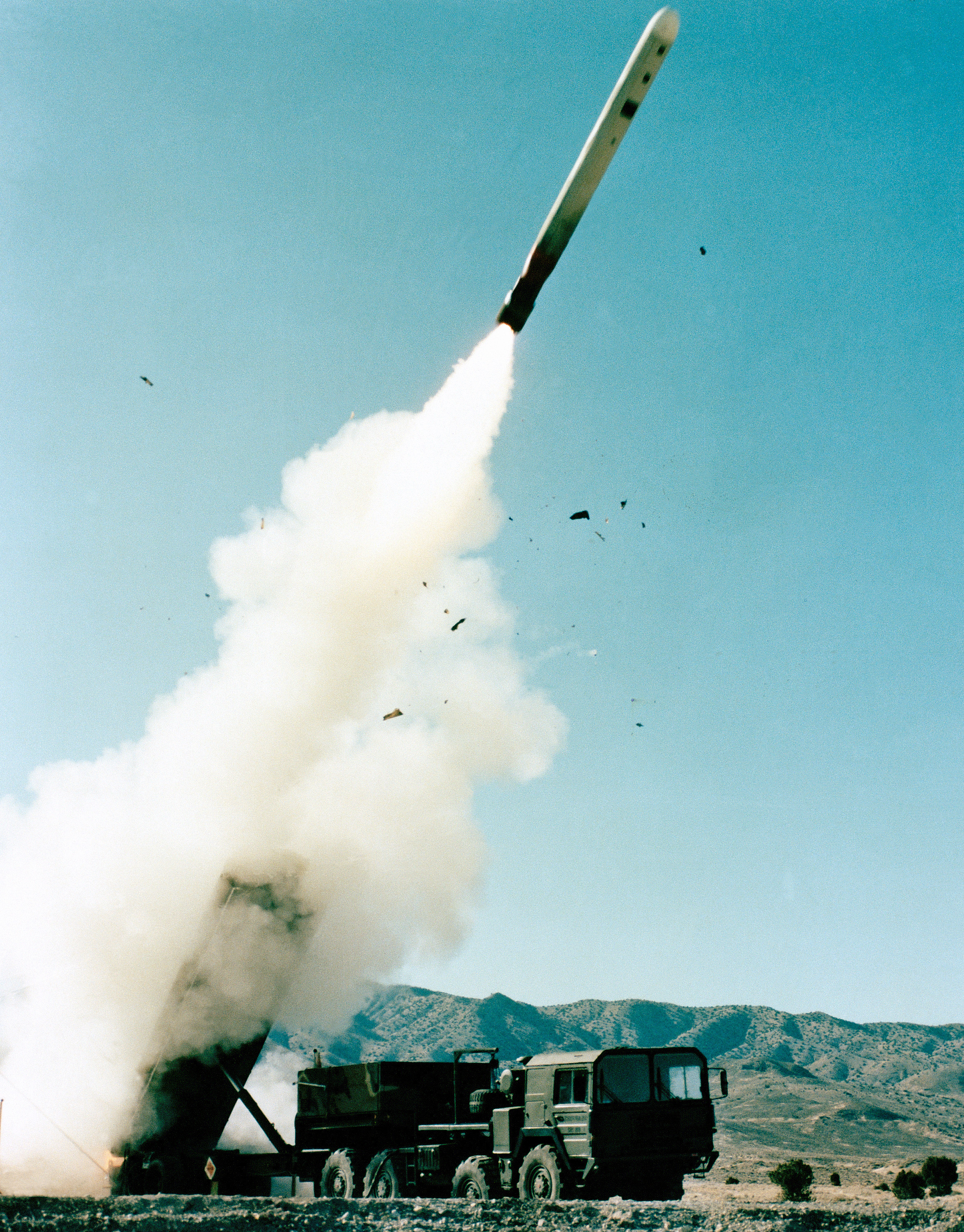 A launching BGM-109G Gryphon missile